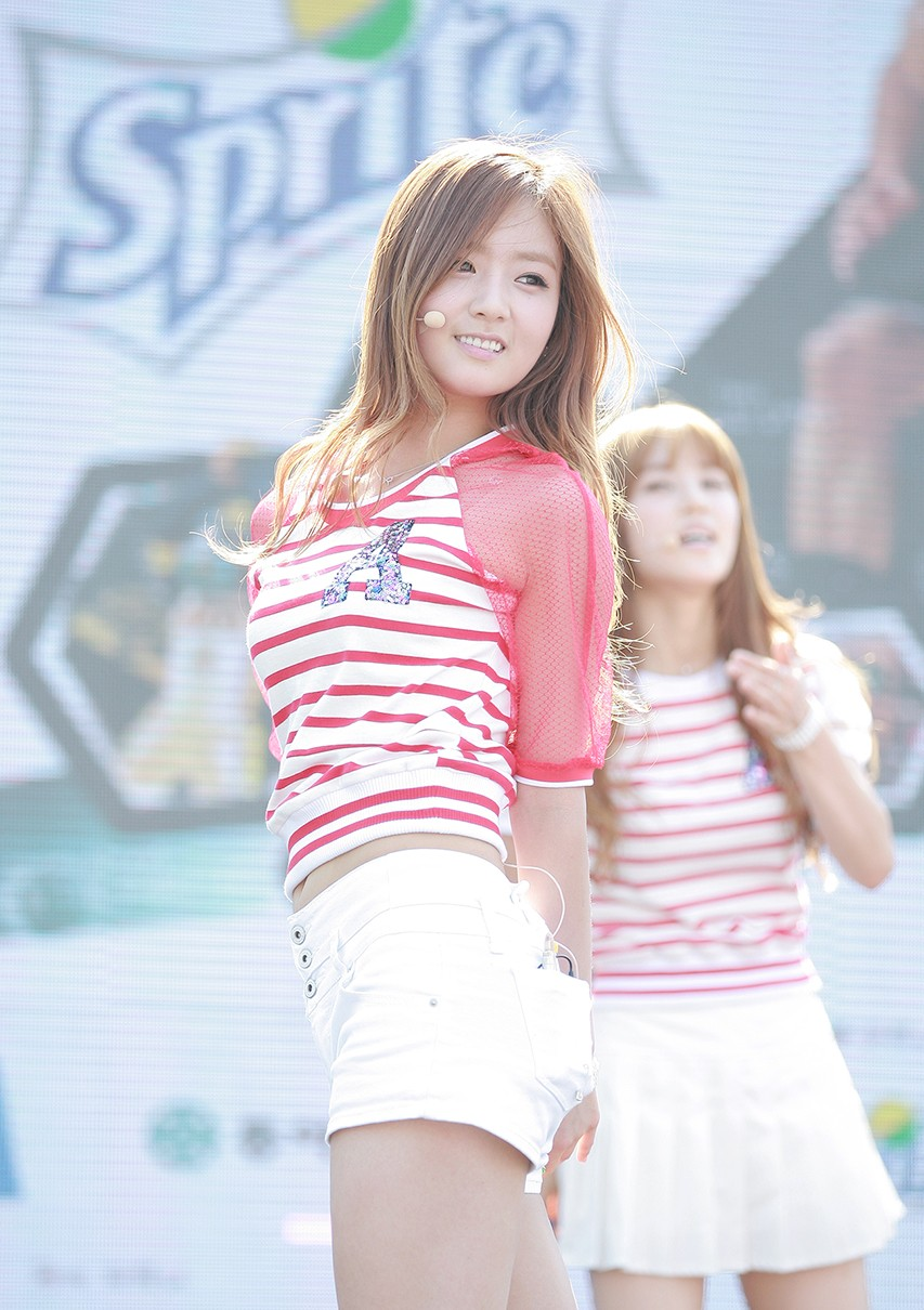 Yoon Bomi at NBA 3X Korea, August 2013